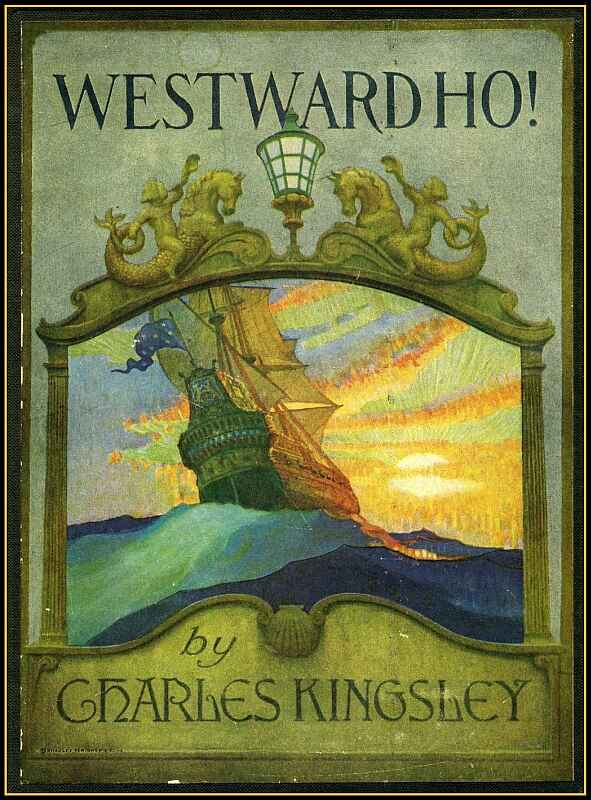 Cover of the novel Westward Ho! by Charles Kingsley. Published in New York.